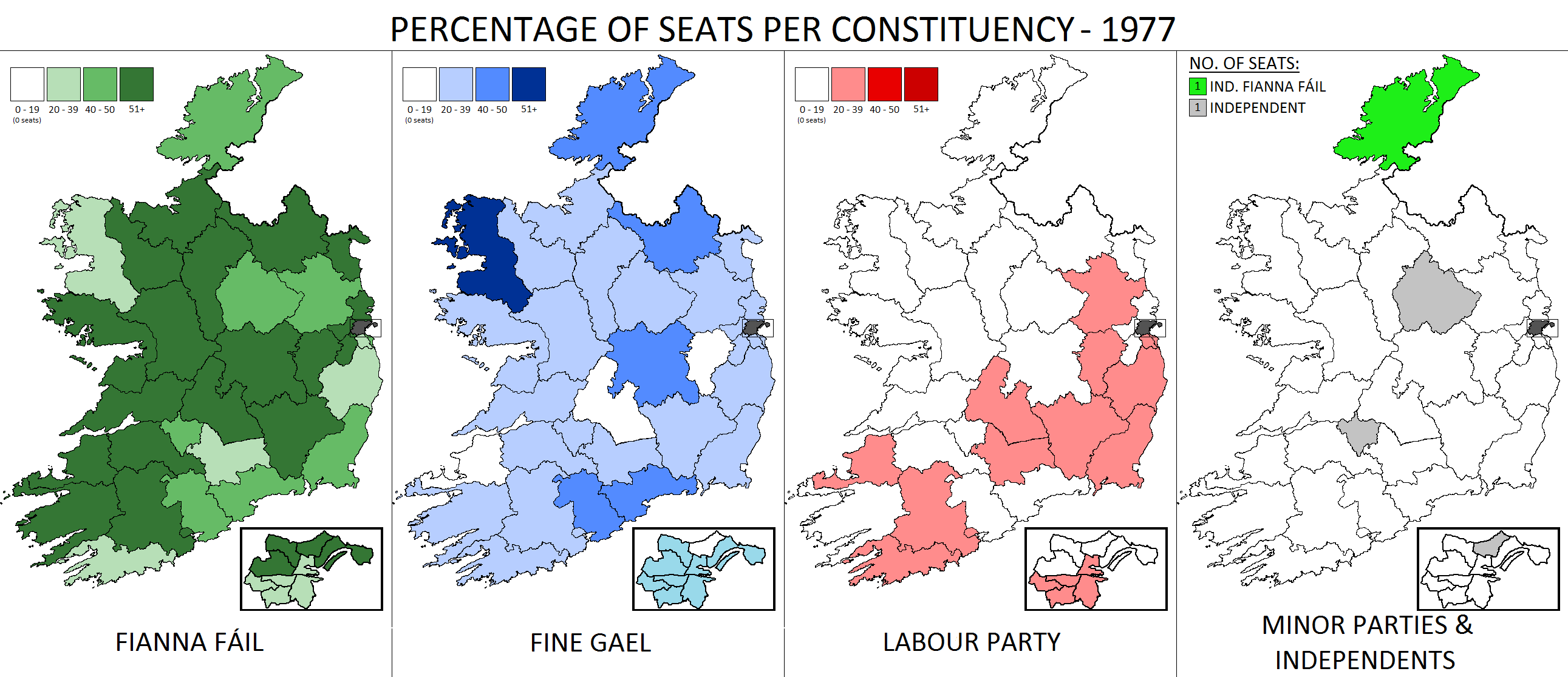 Graphical representation of the 1977 Irish general election results. Created by myself using data from Wikipedia and literary sources.